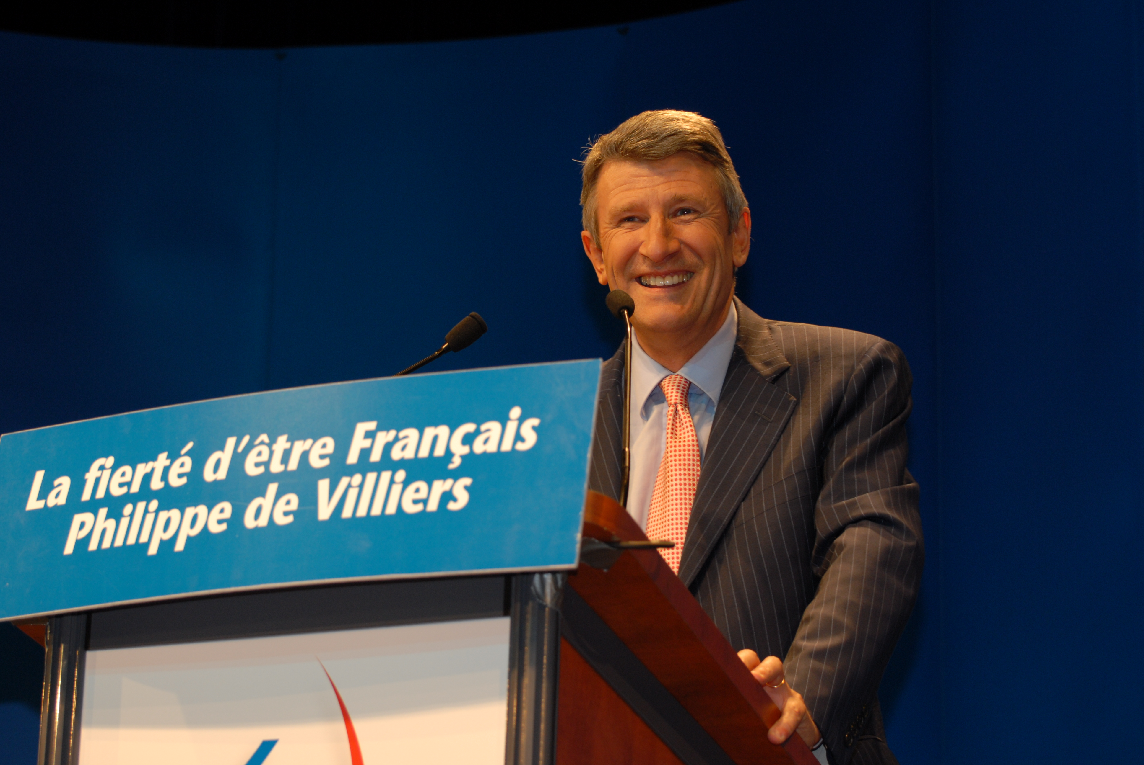 Philippe de Villiers during his meeting in Toulouse on April, 16th 2007 for the 2007 presidential election campaign.